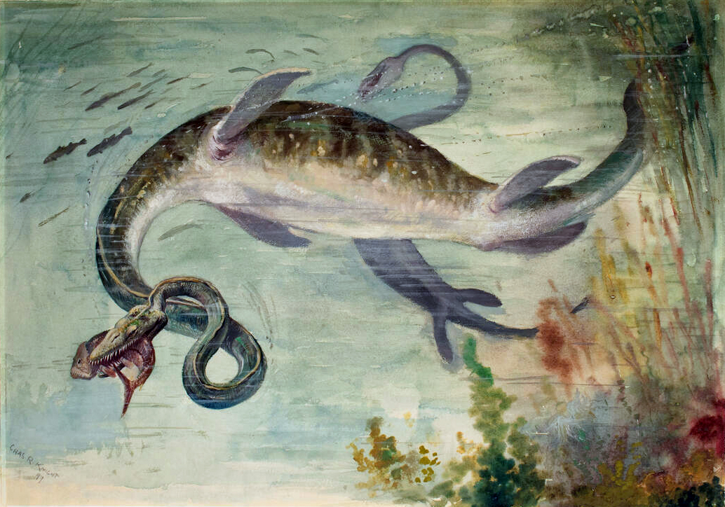 As captioned in Life of a Fossil Hunter:Fig. 23.—The Snake-necked Elasmosaurus, Elasmosaurus platyurus.Discovered in the Niobrara Group of the Cretaceous. Restoration by Osborn and Knight. (From painting in American Museum of Natural History.)